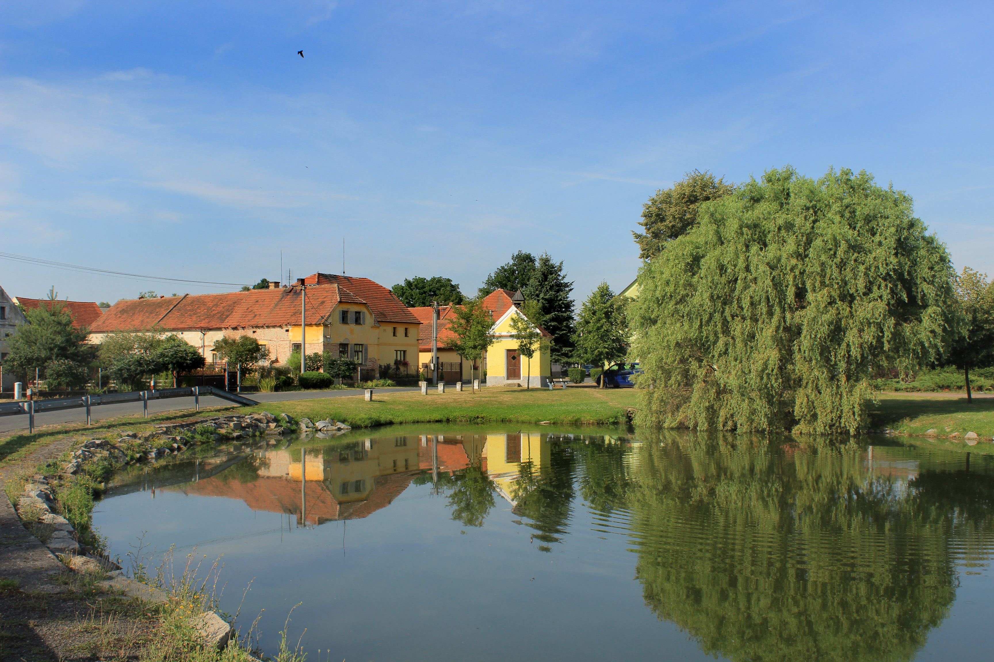 Common pond in Kotovice, Czech Republic.